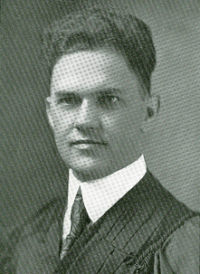 Floyd E. Thompson (b. 1887)